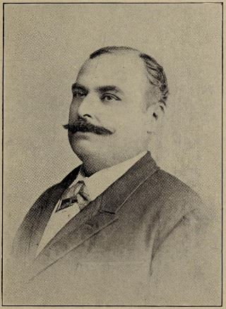 Eduardo Neumann Gandia, Historiador de Ponce, Puerto Rico, cerca del 1910 (DP27)